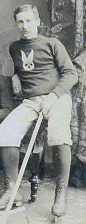 photo of Montreal AAAfeaturing Tom Paton, 1888